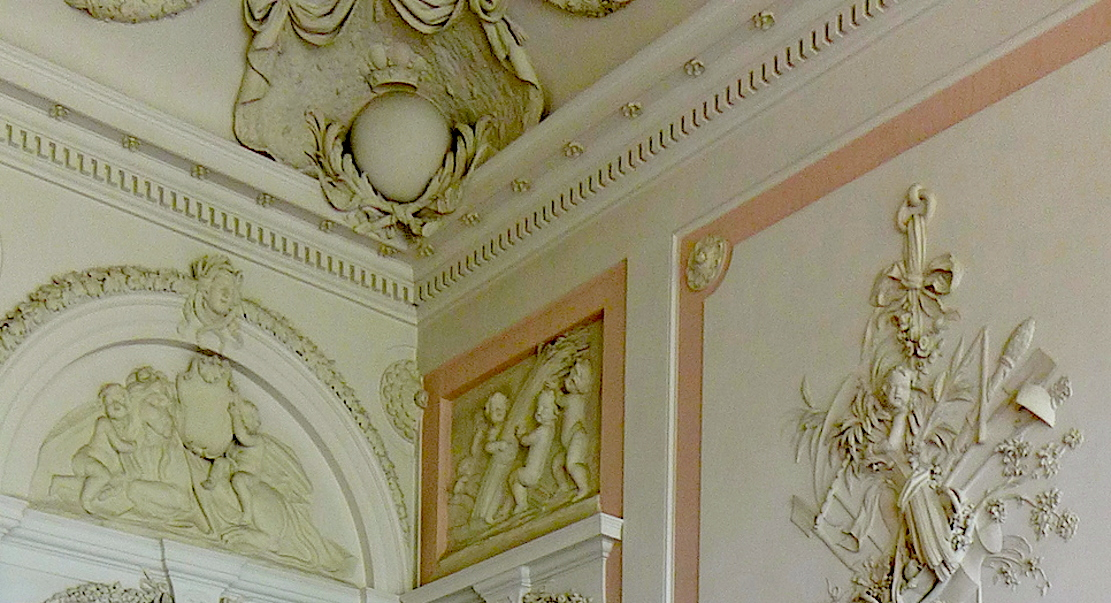 Benrath Palace (Dusseldorf). Stucco molding of plasterer Giuseppe Albuccio.